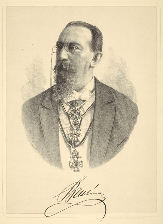 Spiridion Brusina